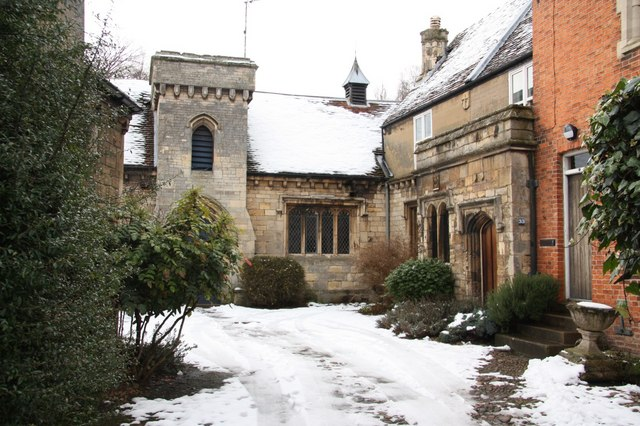 Manor House courtyard 16th and 17th century stonework in the Manor House Courtyard off Northgate